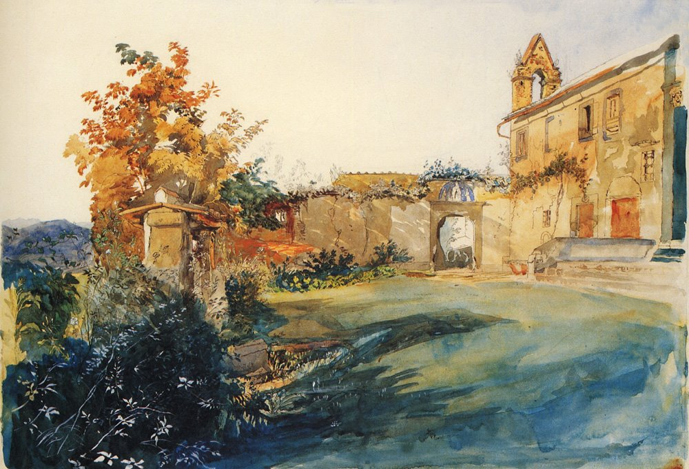 The Garden of San Miniato near Florence, Watercolor on paper